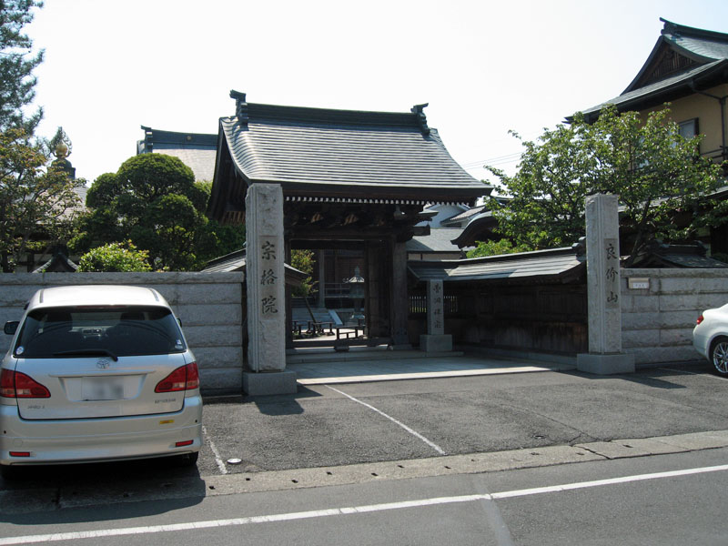 Sokakuin Temple, Hachioji, Tokyo, Japan